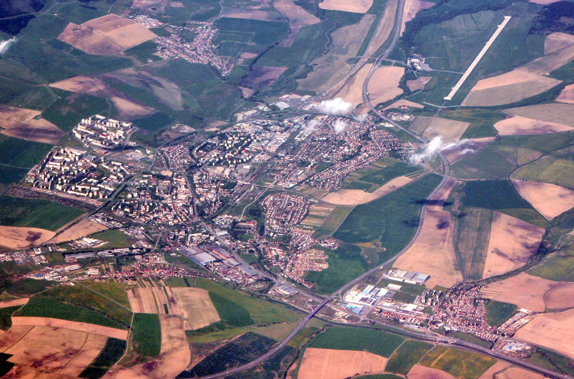 Poprad, Slovakia. Poprad Airport visible.